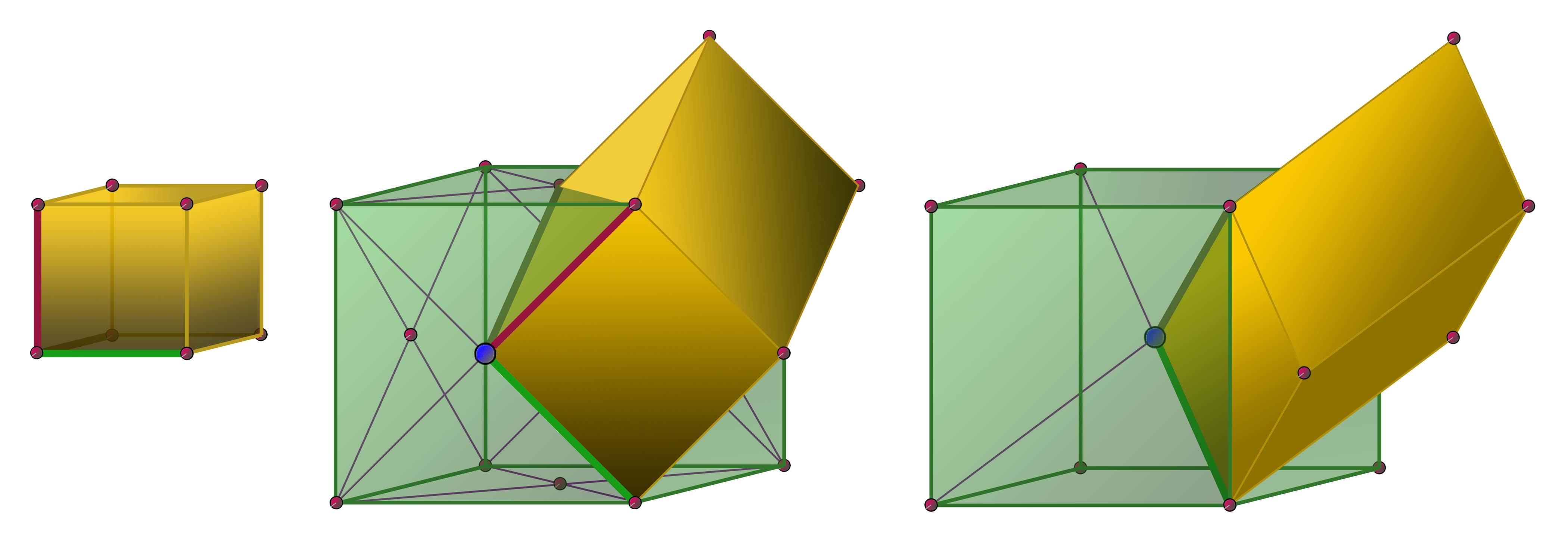 Cubic lattices with fondamental domains.